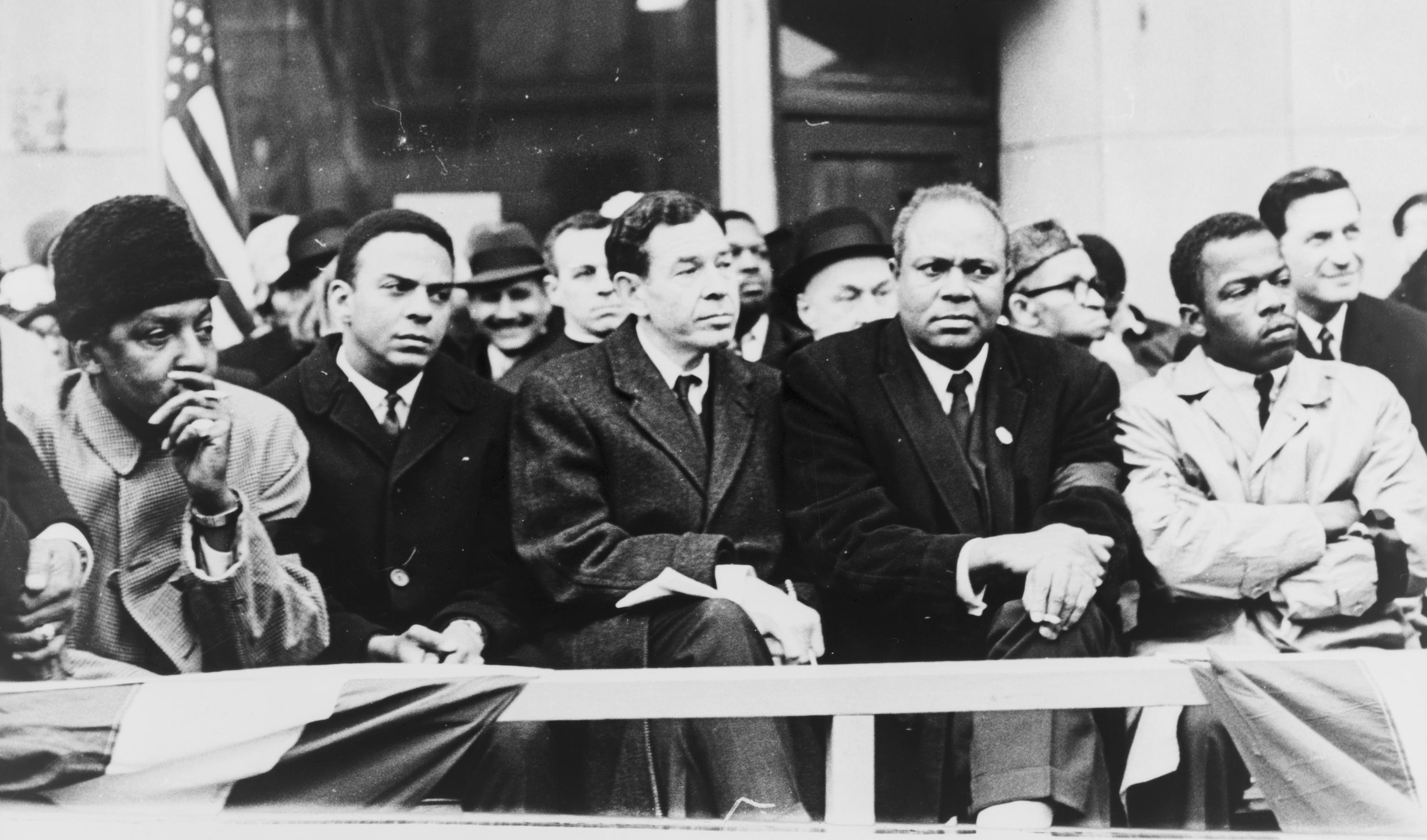 Bayard Rustin, Andrew Young, Rep. William Fitts Ryan, James Farmer, and John Lewis